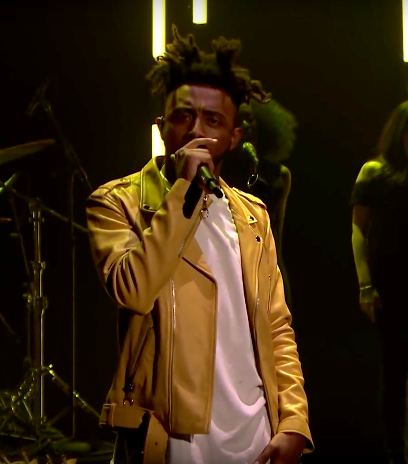 Amine (rapper) performing live